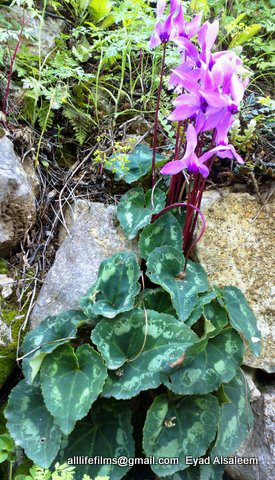 نبات برّي سوري يؤكل